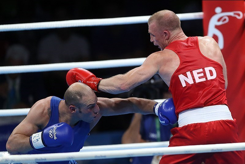 Boxing at 2016 summer Olympic Games in Rio de Janeiro. Ehsan Rouzbahani (Iran) against Peter Mullenberg (the Netherlands)